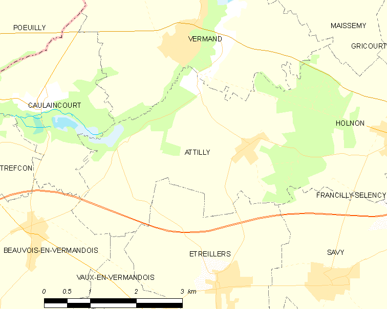 Map of French commune: Attilly Map commune FR insee code 02029.png